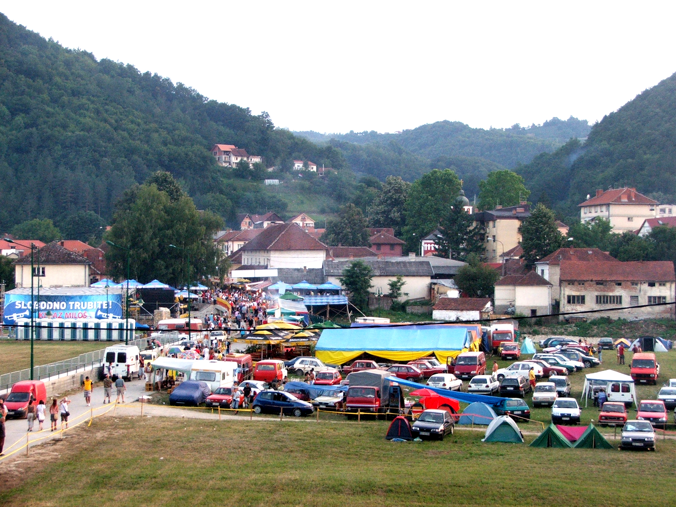 Gucha, Serbia